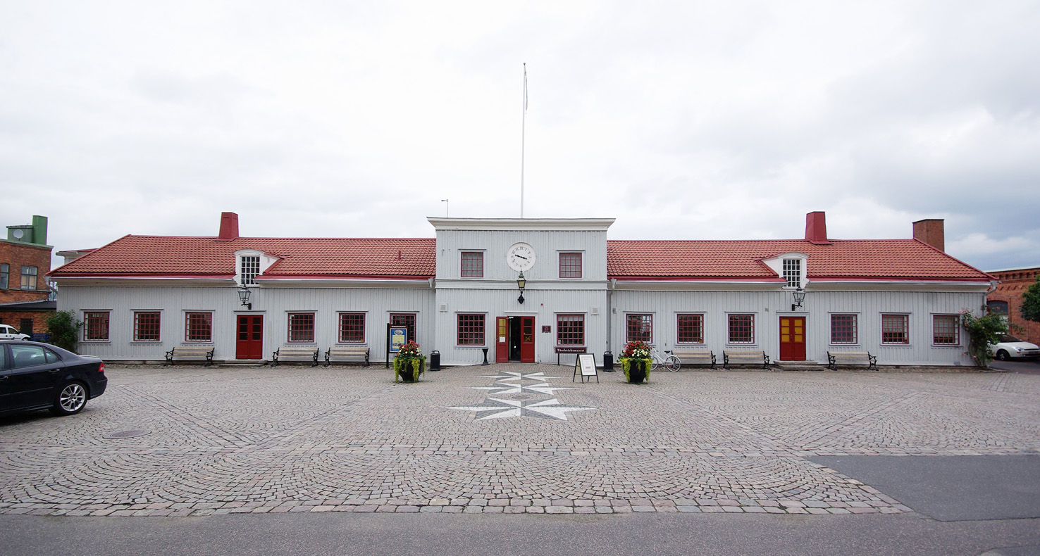 Adjusted image brightness, sharpening, resampled and cropped of the original file.